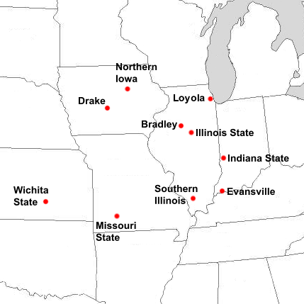 Locations of Missouri Valley Conference full member institutions. Personal creation in Photoshop; All rights released to the public to do whatever they want with it.